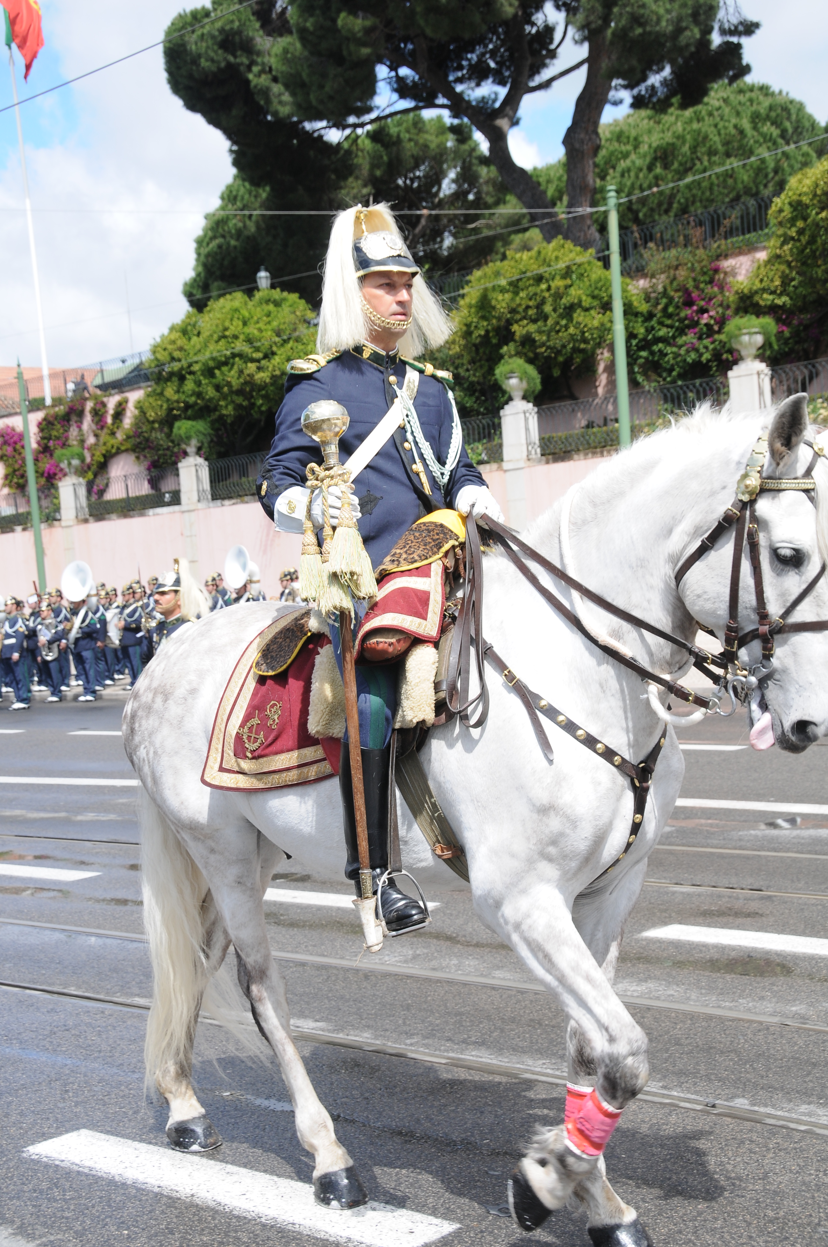 Changing of the Guard in Palácio Nacional de Belém, Lisbon, Portugal